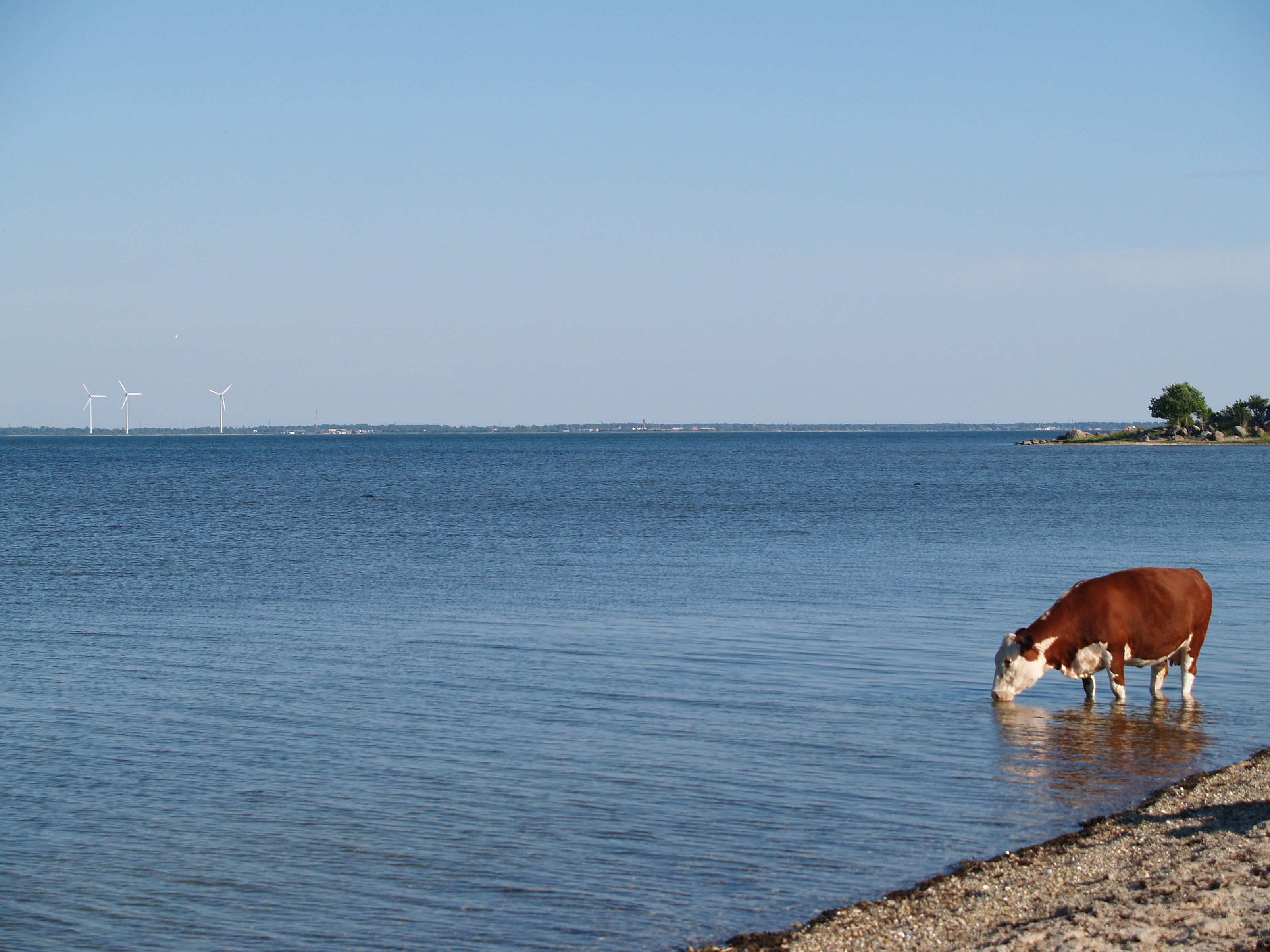 Kesselaid, Estonia. Drinkable seawater.